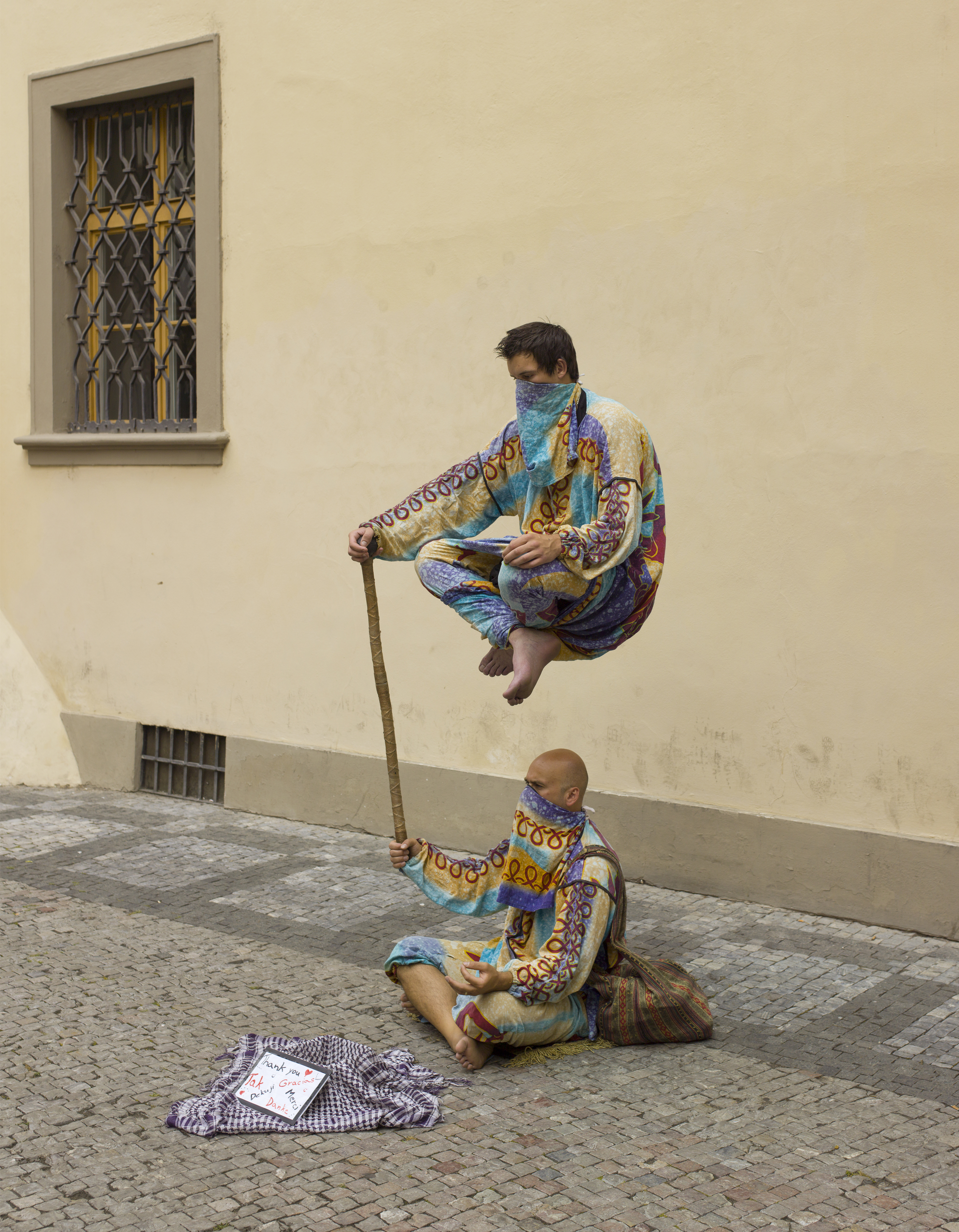 Street performers levitating in Prague.